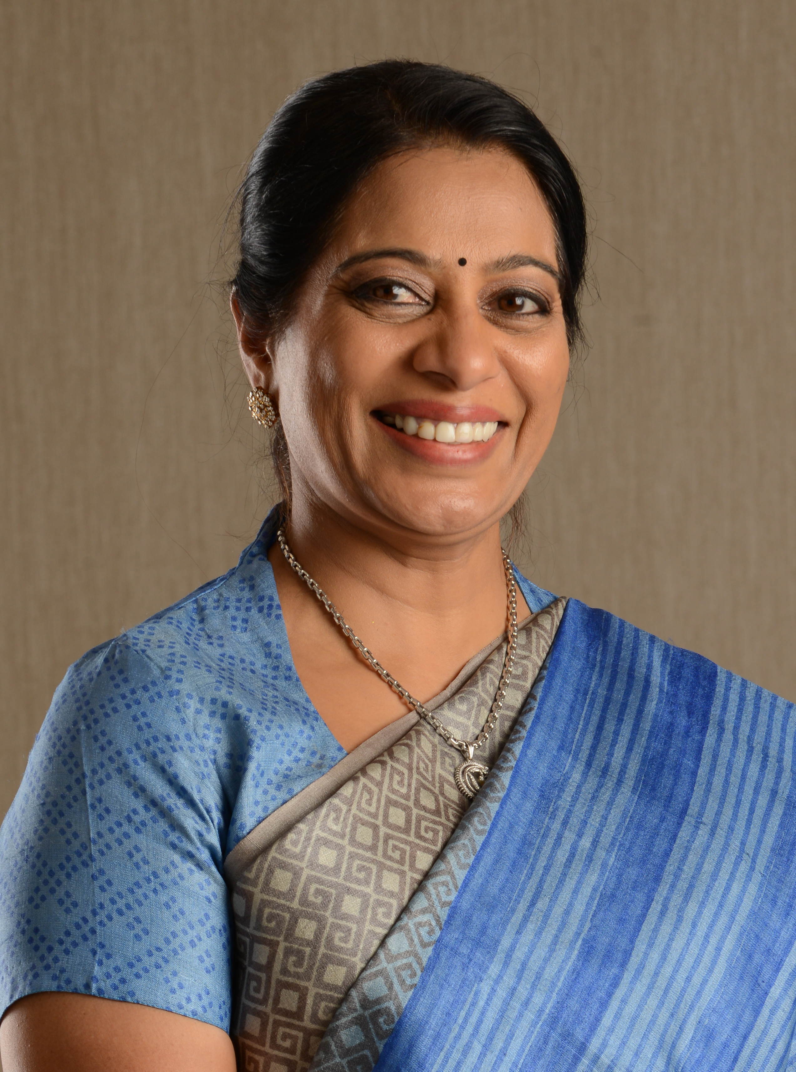 During the 2017 Elections